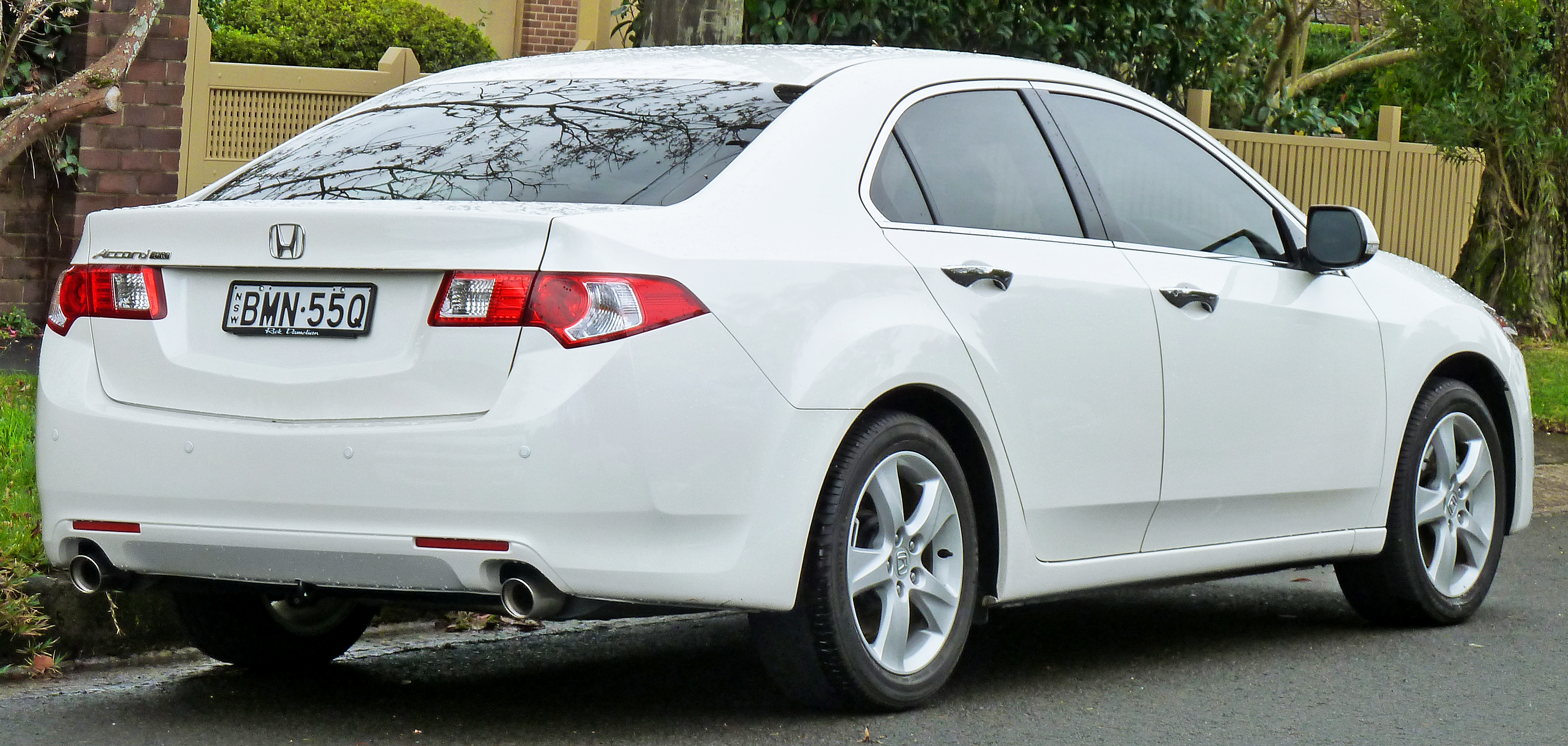 2008–2011 Honda Accord Euro sedan. Photographed in Gordon, New South Wales, Australia.